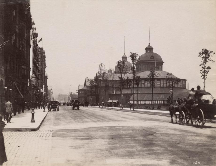 Interstate Exposition Building; J. W. Taylor, Photograph, ca. 1890